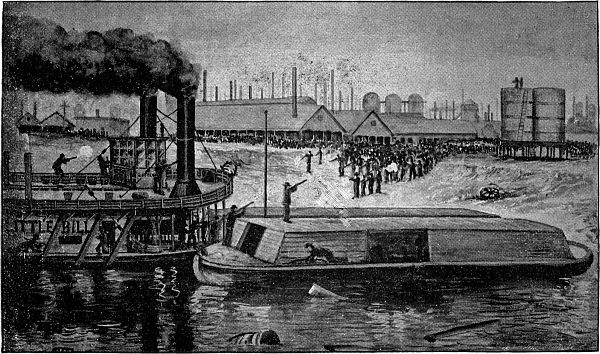 The battle of the landing of the barges with the Pinkertons against the strikers at the Homstead strike of 1892.